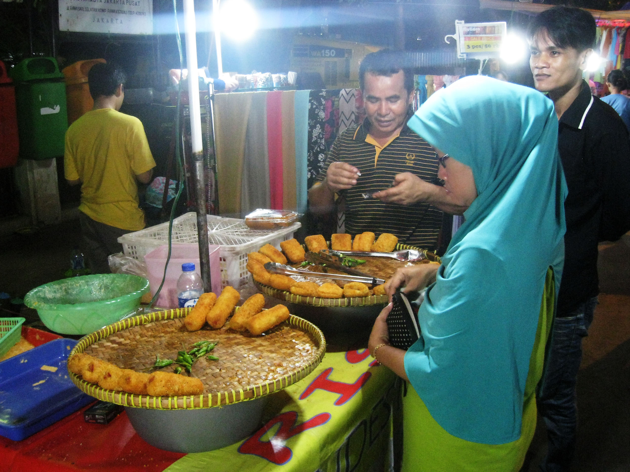 Risoles savoury snack (kue) seller at Pasar Malam (night market) every Saturday night at Rawasari, Central Jakarta, Indonesia.